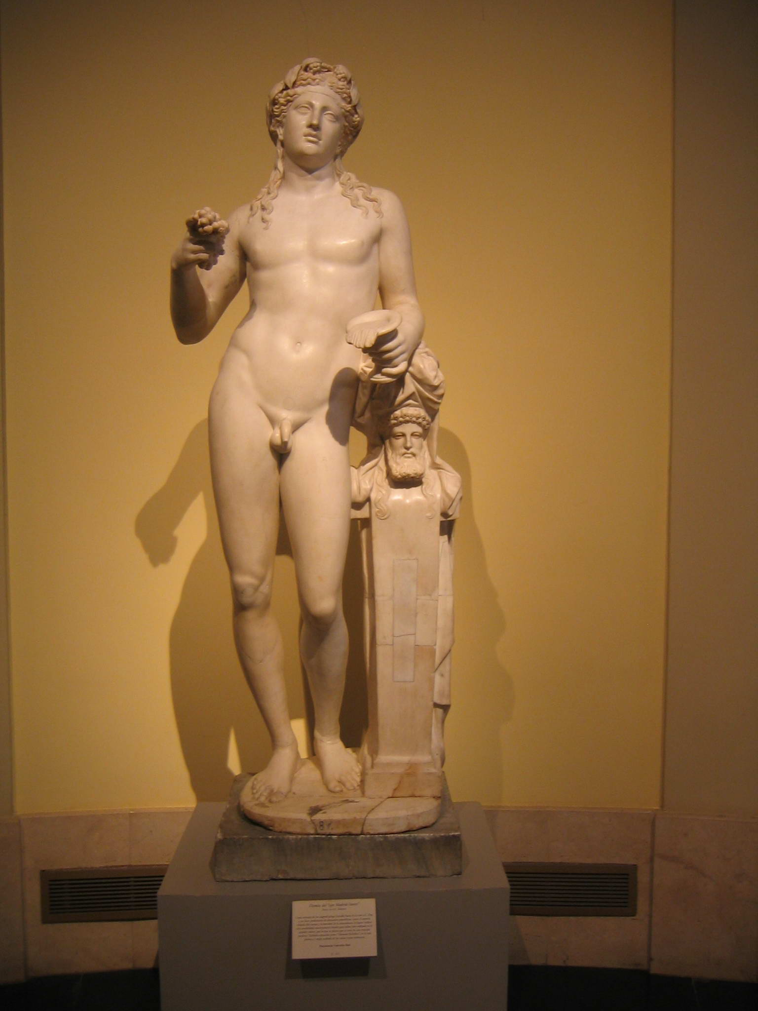 Statue of Dionysus of the "Madrid-Varese type". Roman artwork sculpted in marble around 150 AD, based on a late Hellenistic original (ca. 125–100 BC).